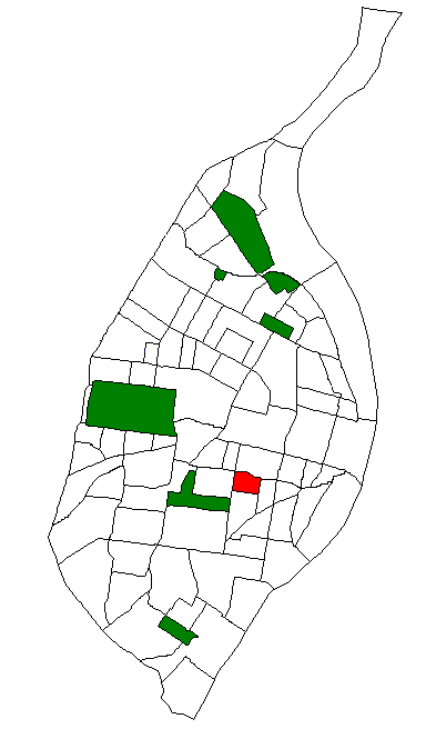 Map of St. Louis Neighborhood #26